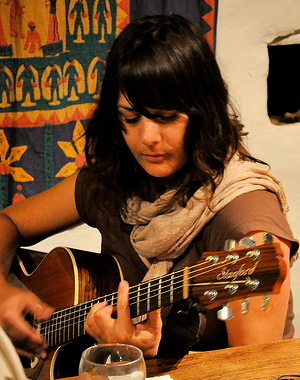 Rumer Joyce British singer